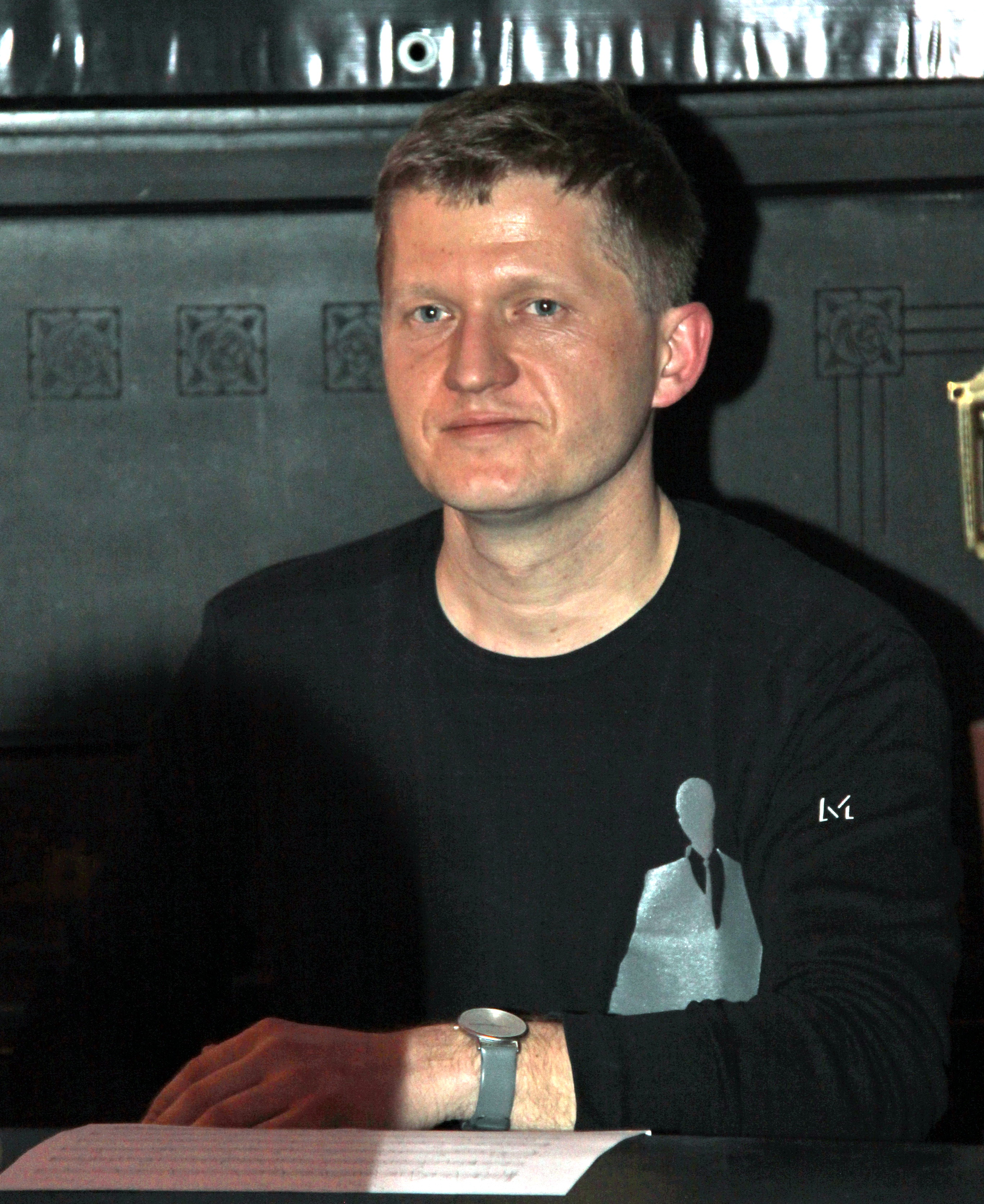 Piotr Wyleżoł - Polish jazz pianist, composer and lecturer. Busko-Zdroj, February 20, 2012.